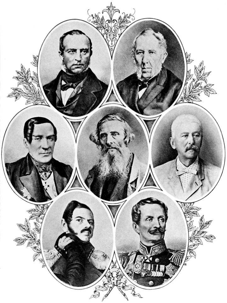 The founding members of the Russian Geographical Society: Vladimir Odoyevsky, Alexey Levshin Konstantin Arseniev, Vladimir Dal, Platon Chikhachov Mikhail Vronchenko, Friedrich (Fyodor) von Berg